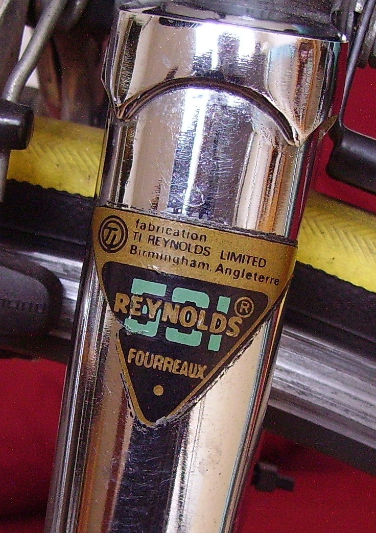 Reynolds 531 alloy steel fork blades of a 1980 Peugeot PV10 bike.